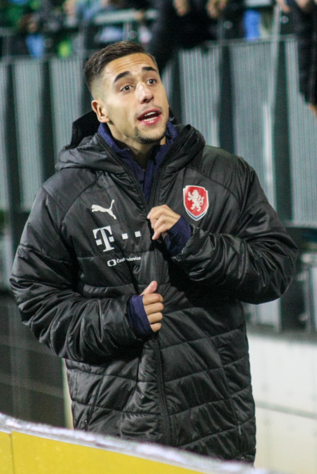 Ondřej Lingr in an internatinoal association football match of European Under-21 Championship Qualifying Round between the Czech Republic and Greece, Městský stadion Karviná, Karviná District, Moravian-Silesian Region, Czechia Personality rights warningAlthough this work is freely licensed or in the public domain, the person(s) shown may have rights that legally restrict certain re-uses unless those depicted consent to such uses. In these cases, a model release or other evidence of consent could protect you from infringement claims.